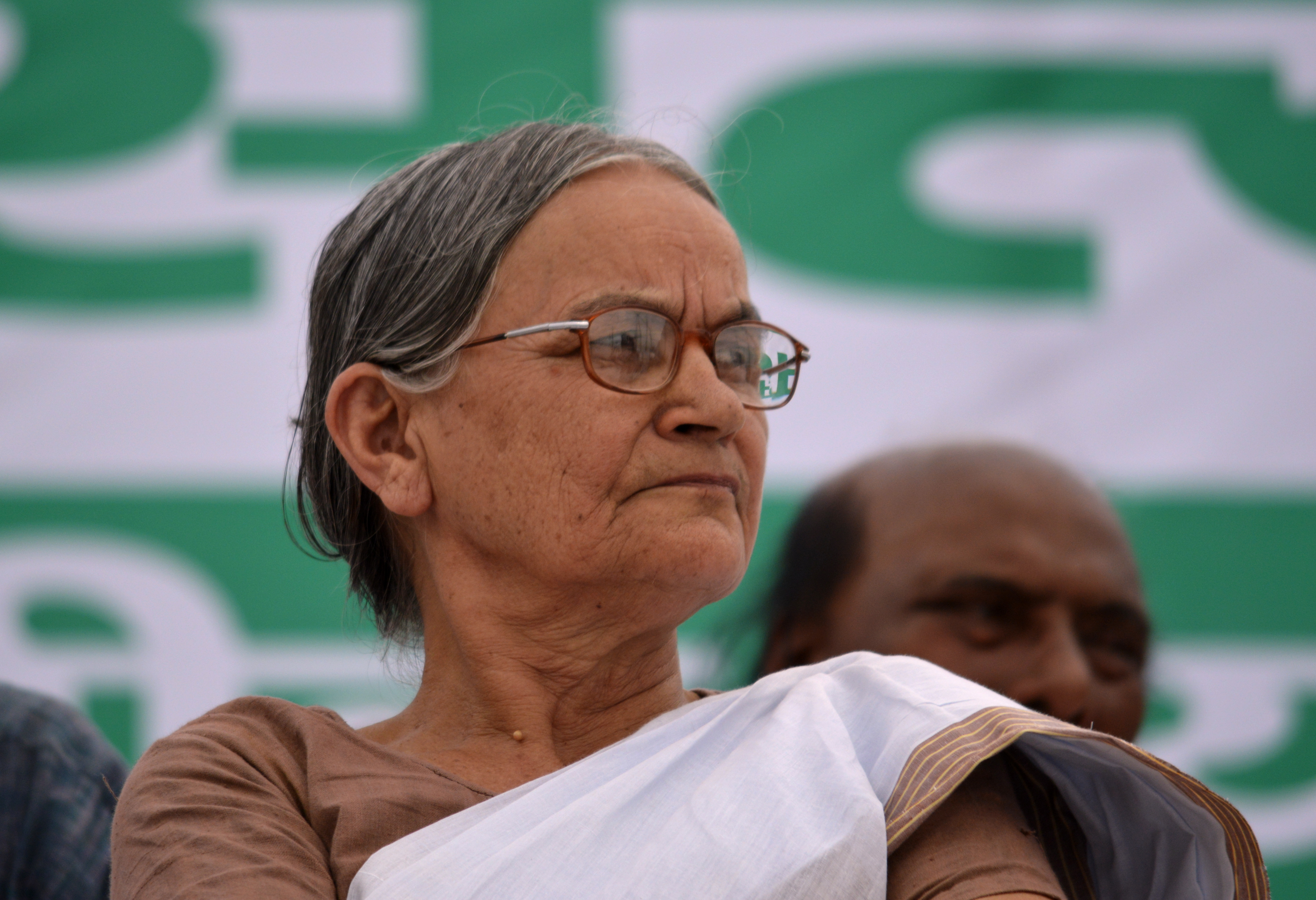 Radha Bhatt, president of the Gandhi Peace Foundation, at Gwalior, Madhya Pradesh, India.